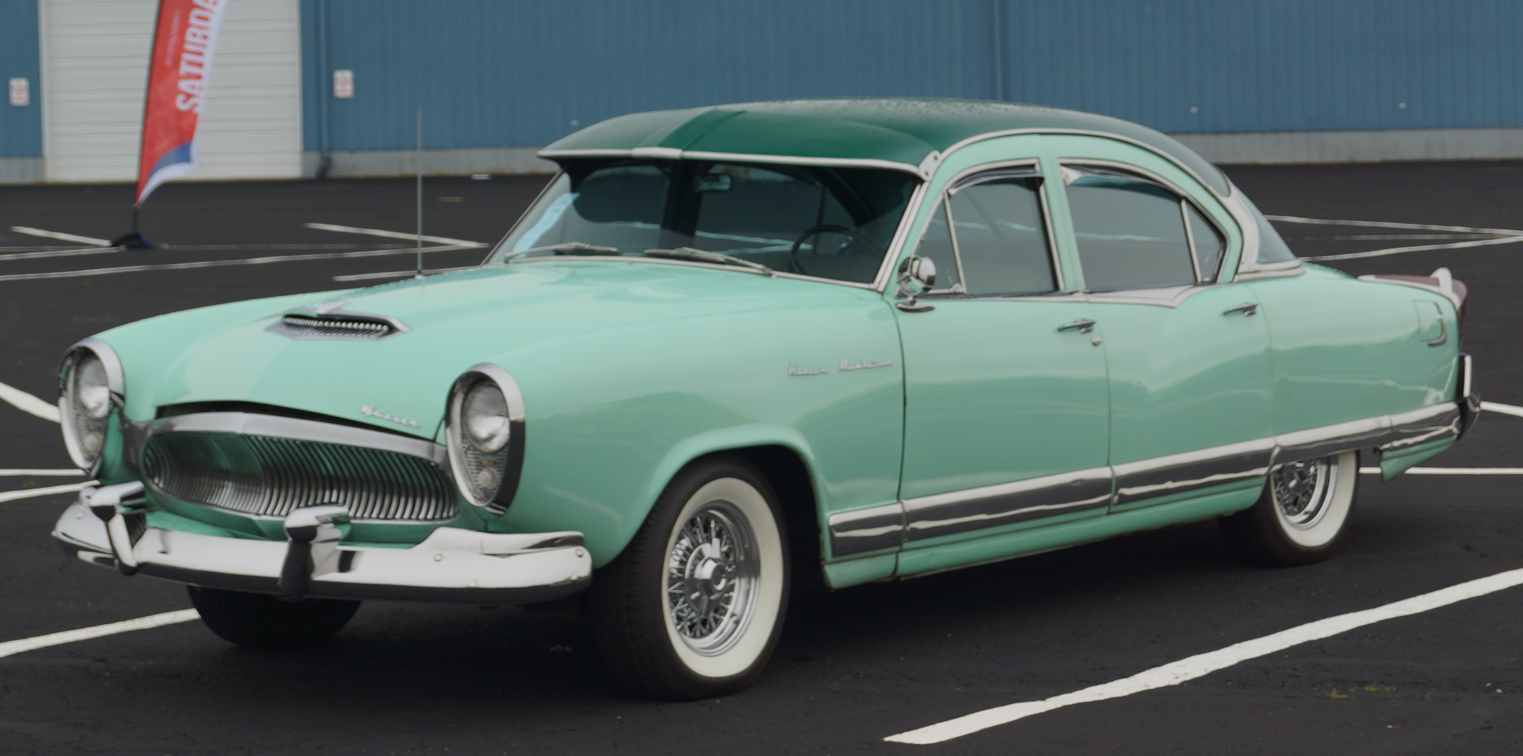 Auburn Spring RM Sotheby's Auctions America Auburn Auction Park Auburn, Indiana May 2017